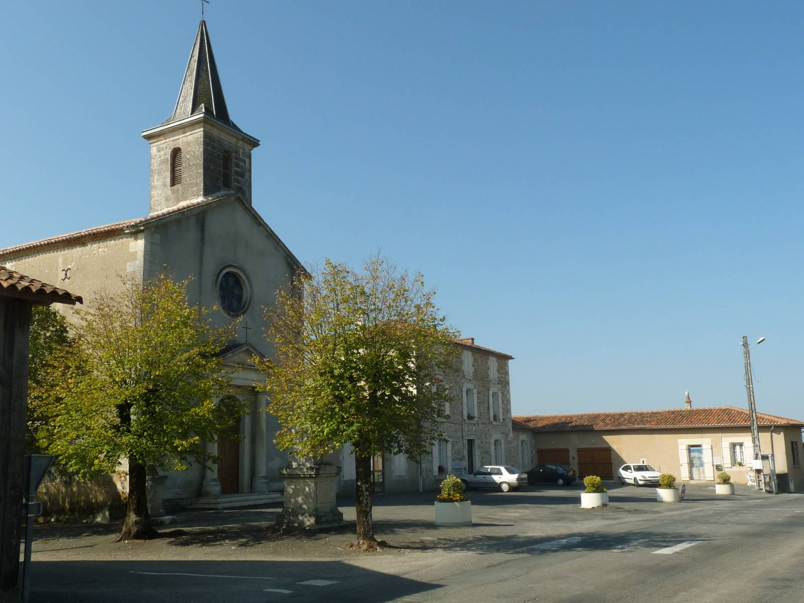 town hall place and church of Eymouthiers, Charente, SW France